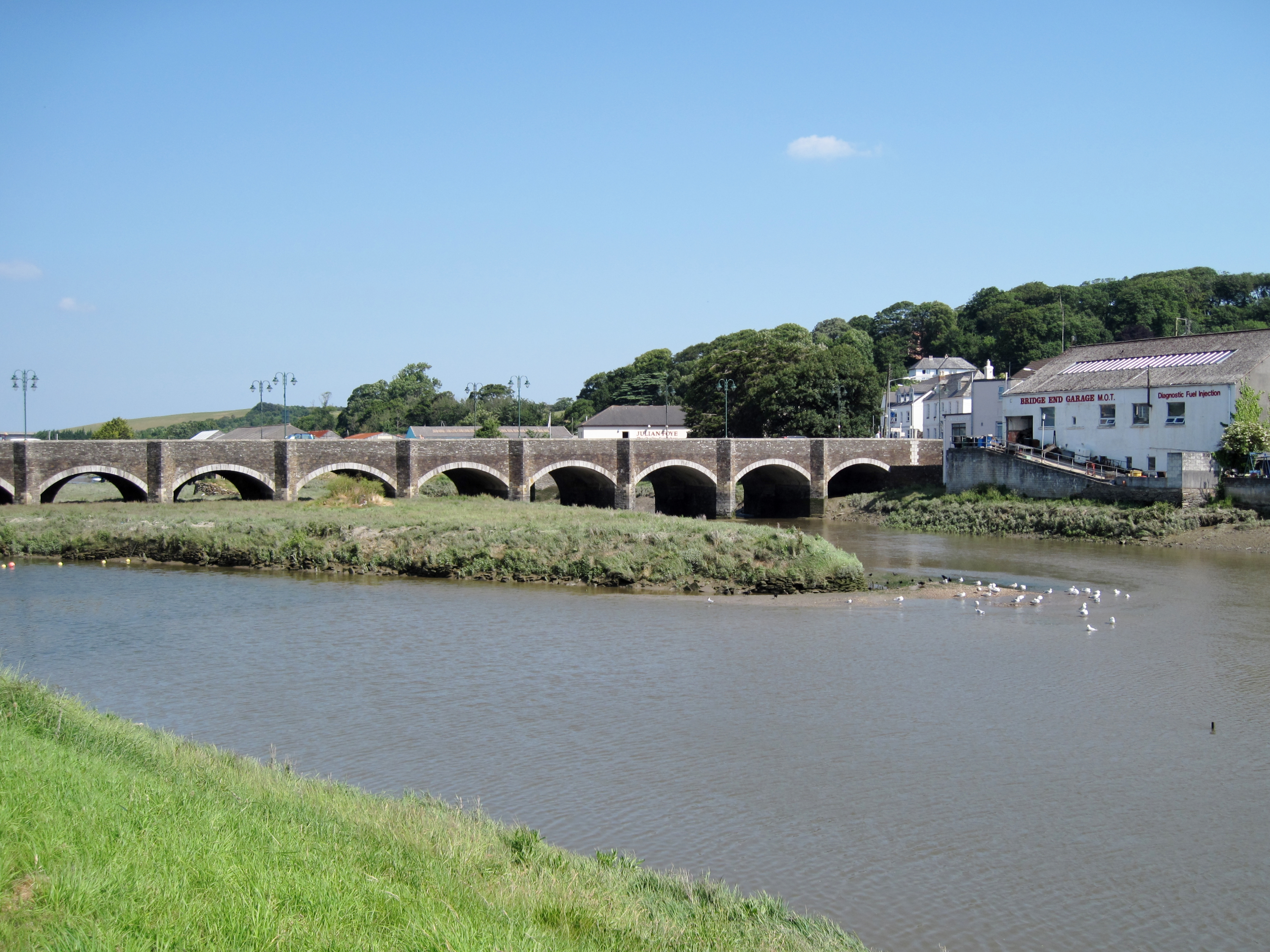 The Old Bridge over the River Camel, Wadebridge, Cornwall